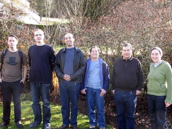 Original description at MFO: On the Photo: — Austrin, Per (left) — Ikenmeyer, Christian — Lovett, Shachar — Meir, Or — Mie, Thilo — Moshkovitz, Dana (right) — Occasion:Complexity Theory — Annotation: Oberwolfach Leibniz Graduate Students — Location: Oberwolfach — Author: Schmid, Renate (photos provided by Schmid, Renate) — Source: MFO — Year: 2009 — Copyright: MFO — Photo ID: 12245